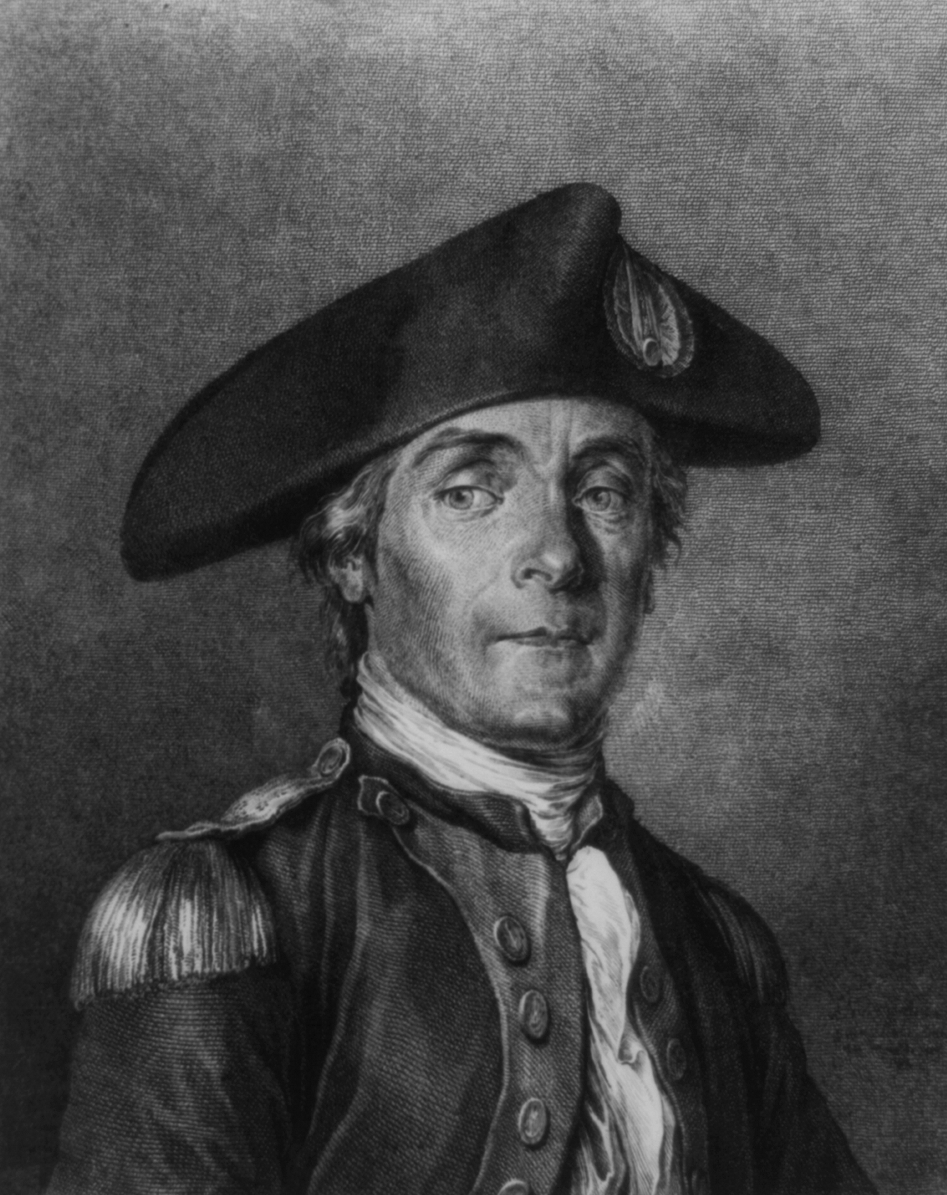 American Revolutionary War hero John Paul Jones (1747-1792). Portrait drawn from life and engraved (etching) by Moreau le Jeune in 1780, completed by Jean-Baptiste Fossoyeux (burin) in 1781.